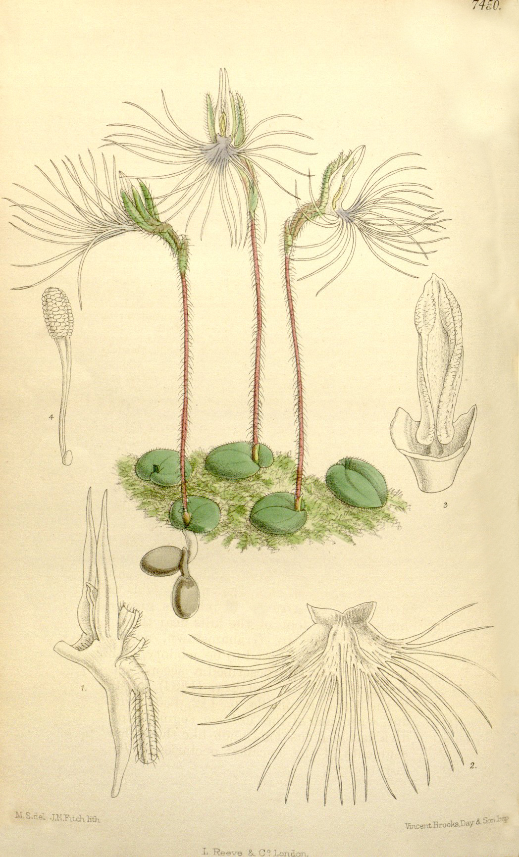 Illustration of Bartholina burmanniana (as syn. Bartholina pectinata)